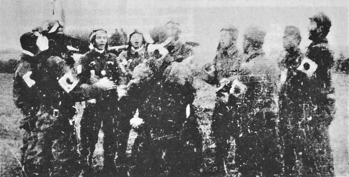 kamikaze pilots singing a song before the sortie